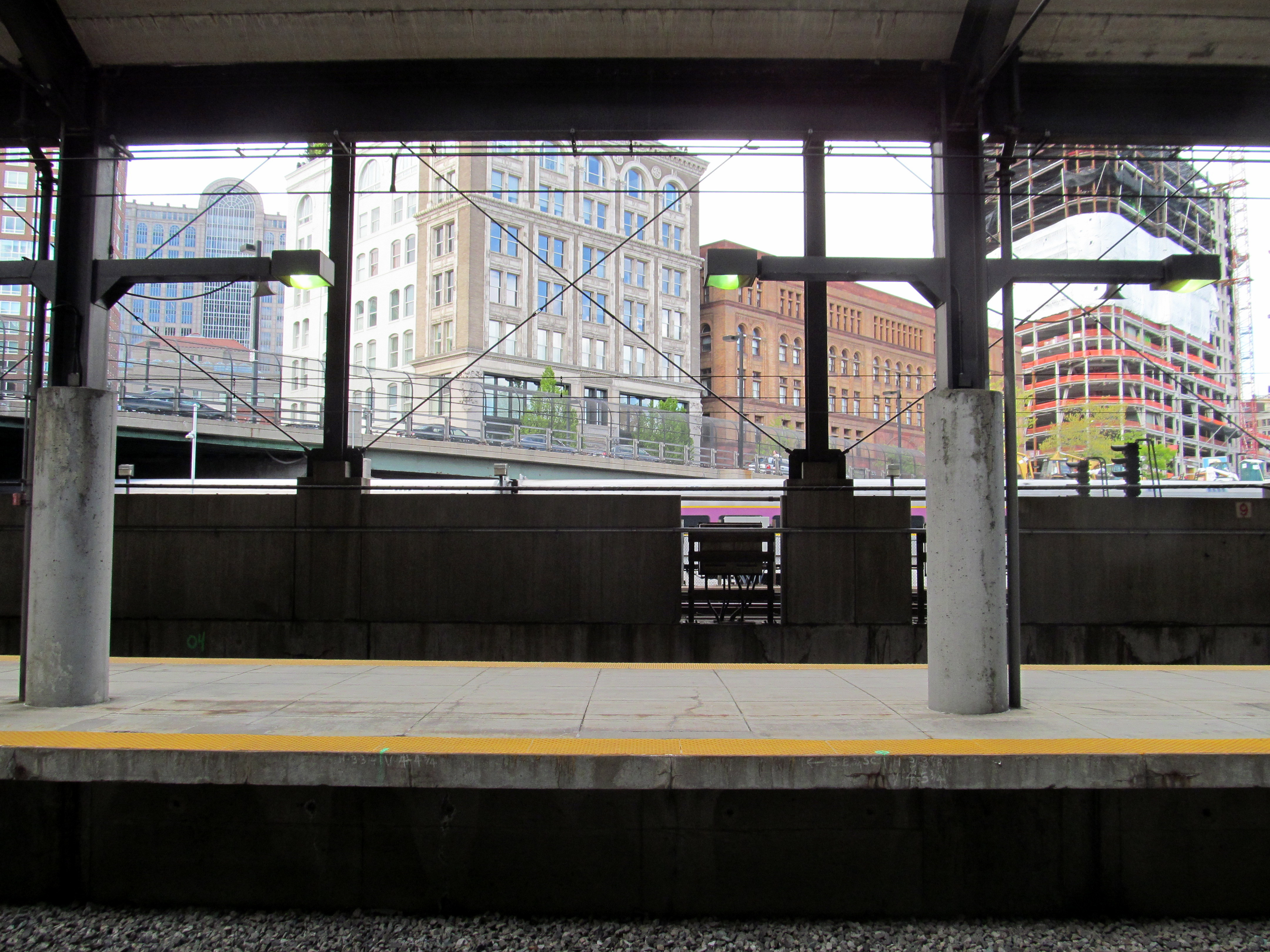 This island platform serves tracks 1 and 3 on the Northeast Corridor at Back Bay